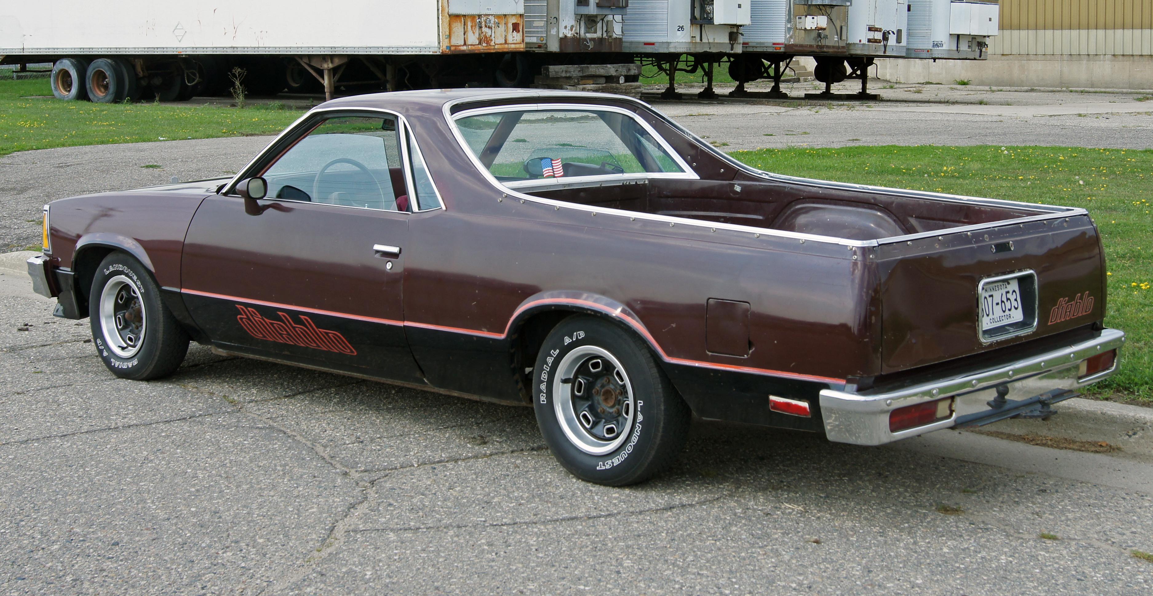 Yes, due to a deer incident the front clip is from a Chevy Malibu